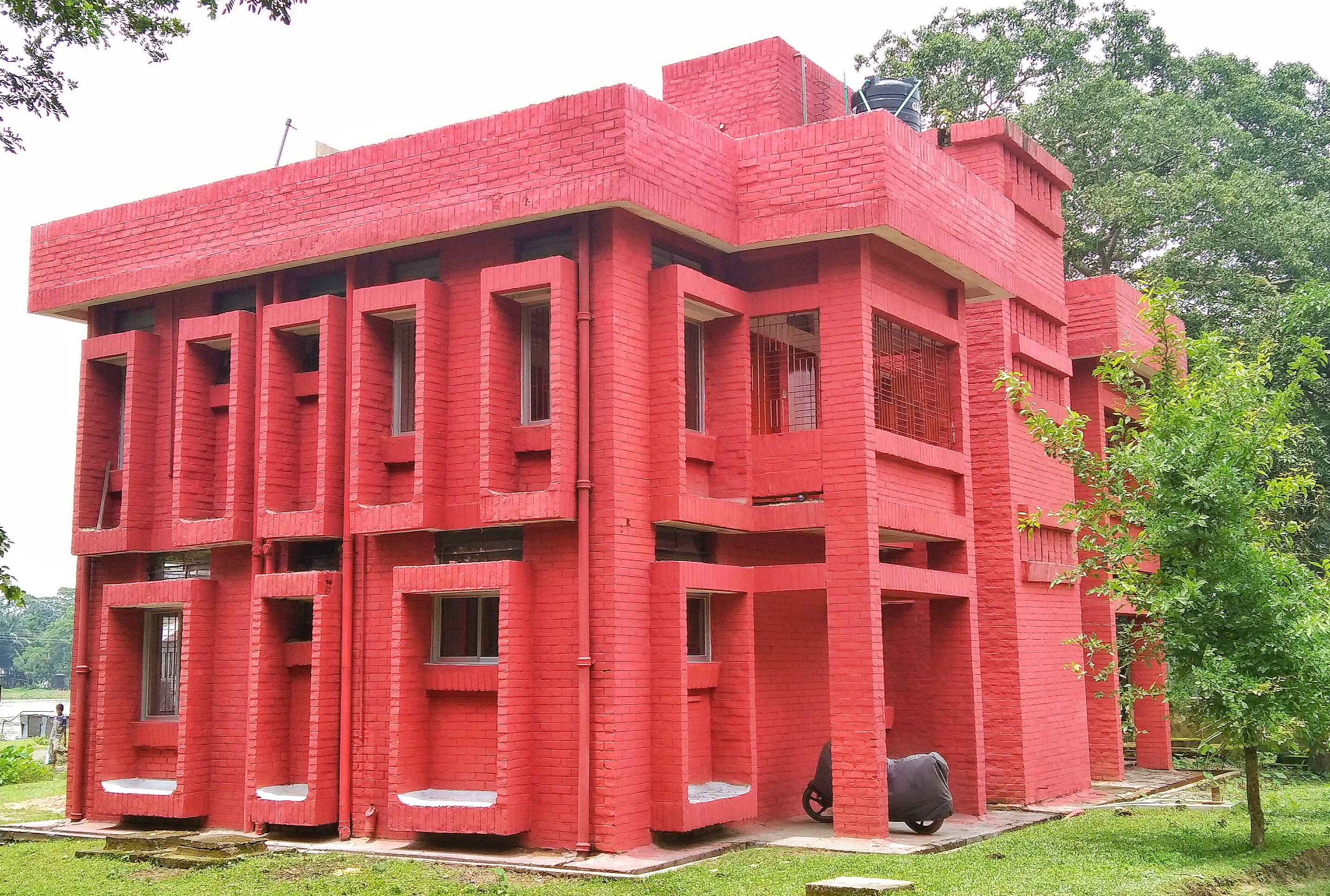 Sunajur, Atpara, Netrokona